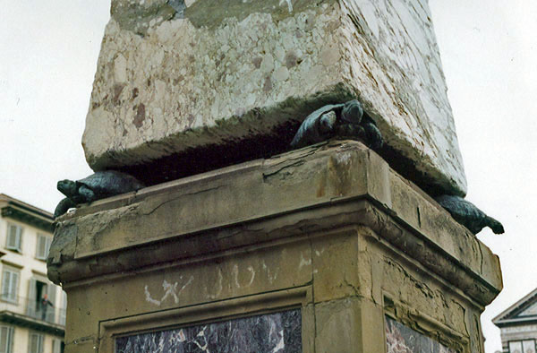 Bronze tortoises, sculpted by Giambologna in 1608, supporting one of the two Obelisks of the Corsa dei Cocchi in Santa Maria Novella Square, Florence.